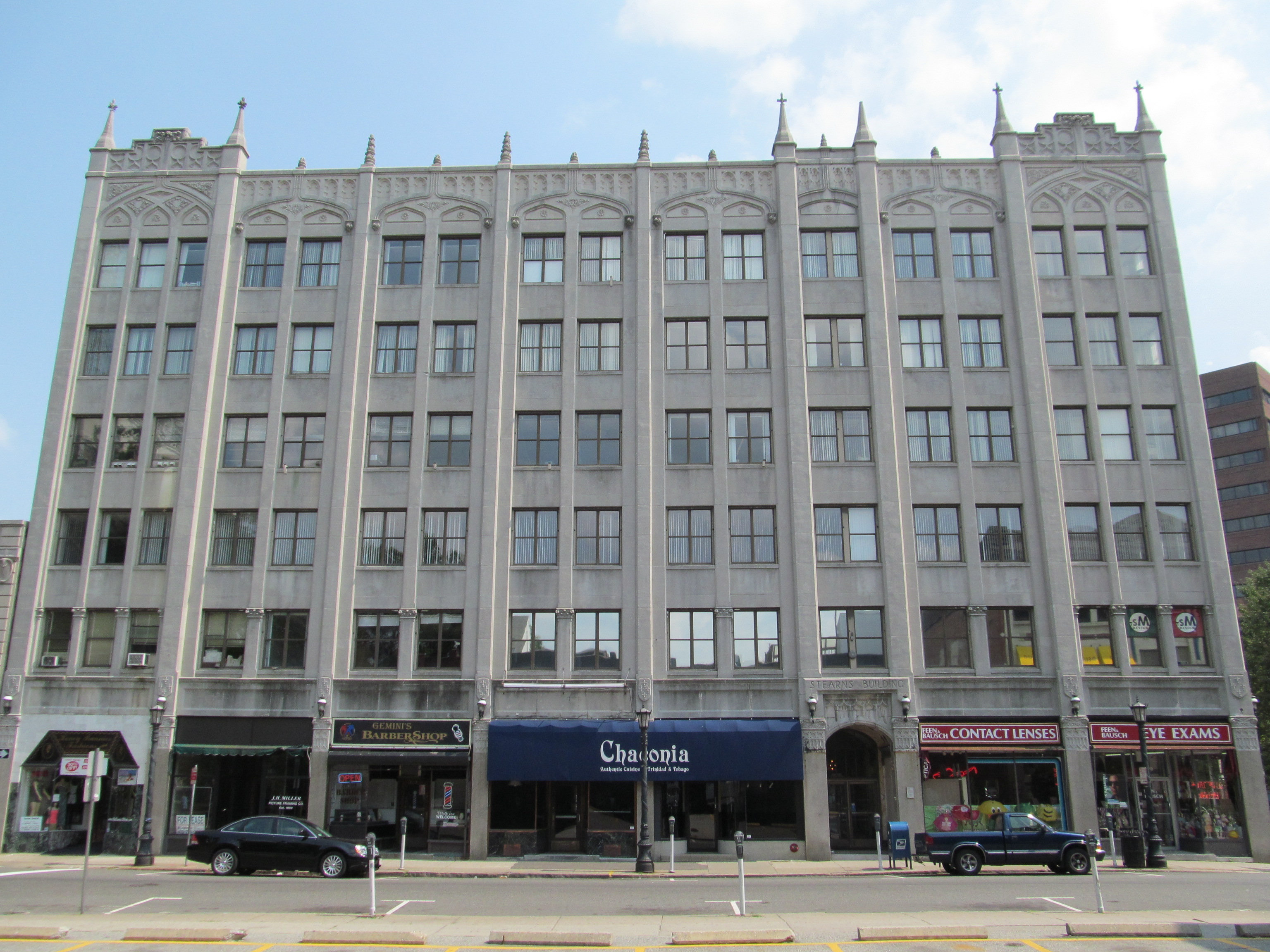 Stearns Building, Springfield Massachusetts MACRIS Listing